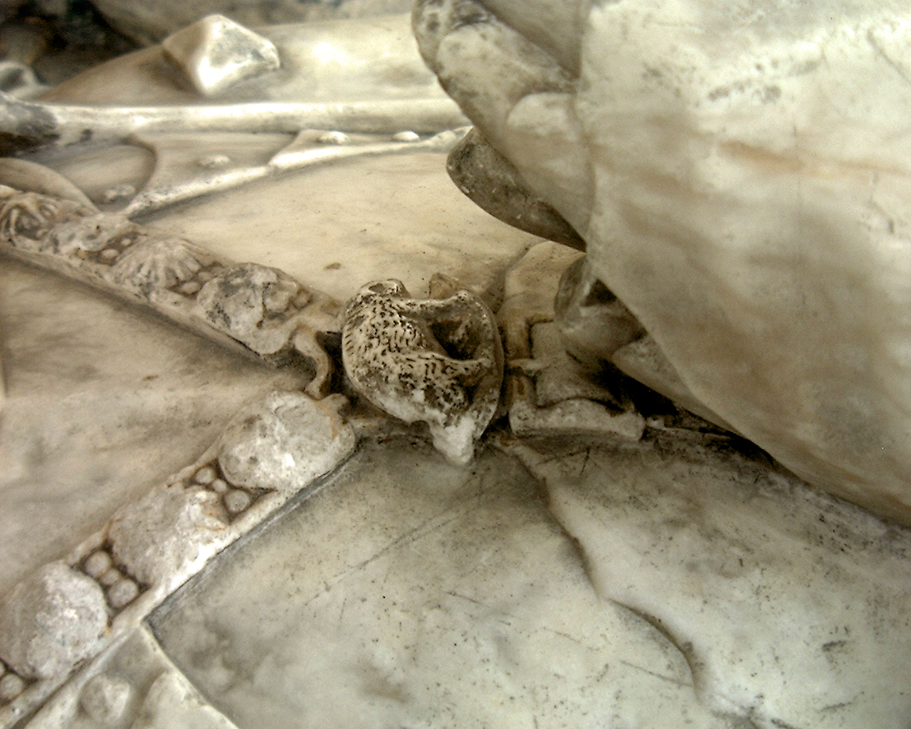 White boar pendant on collar of Ralph Fitzherbert, tomb at Norbury, Derbyshire, England. White Boar livery badge of Richard III.